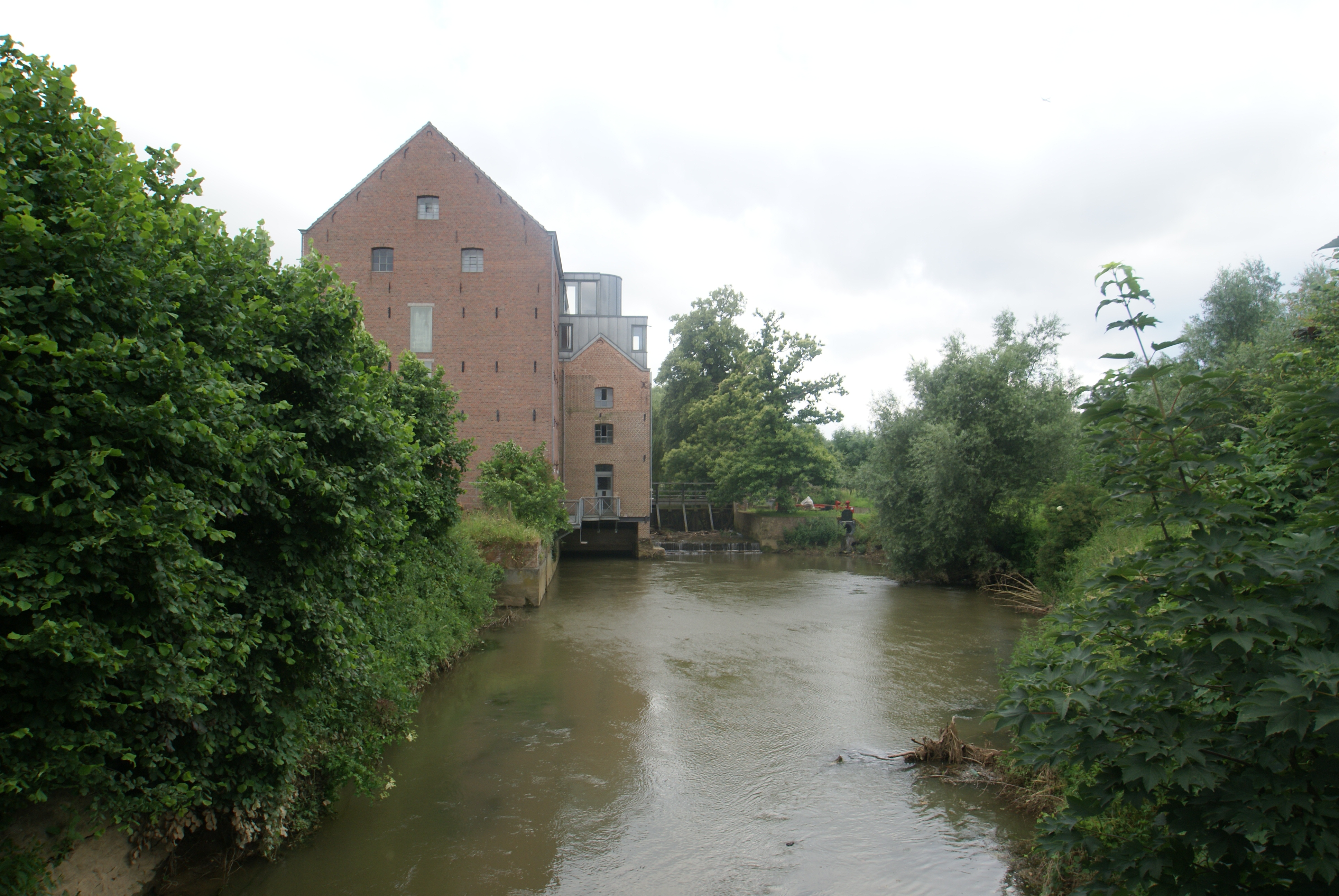 Rotselaar (Belgium): The Rotselaar Water Mill at the Winge River